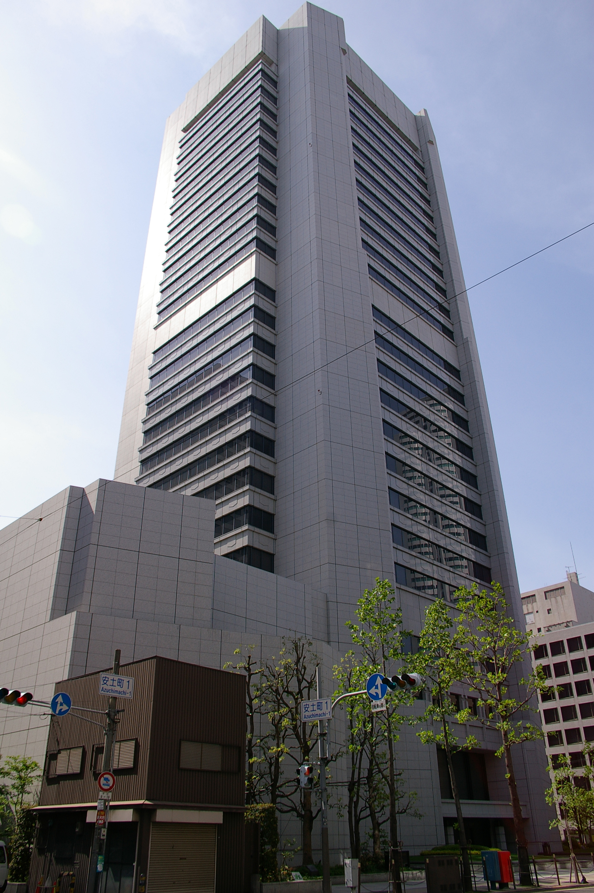 Photograph of Resona Bank headquarters building, central branch of Resona Bank and Osaka head office of Resona Holdings, in Chuo-ku, Osaka, Osaka Prefecture, Japan.